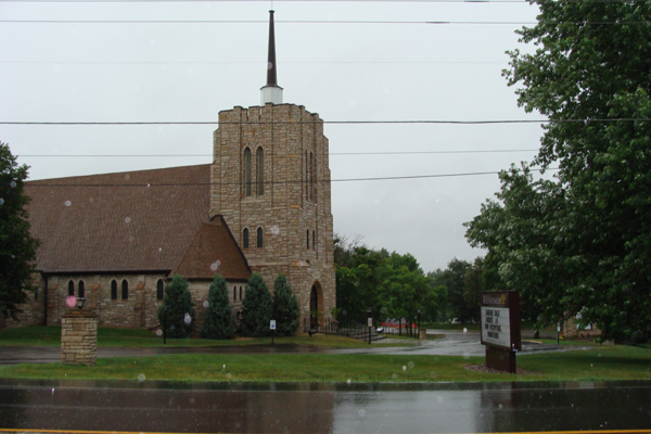 City of Wayzata - Redeemer Lutheran Church